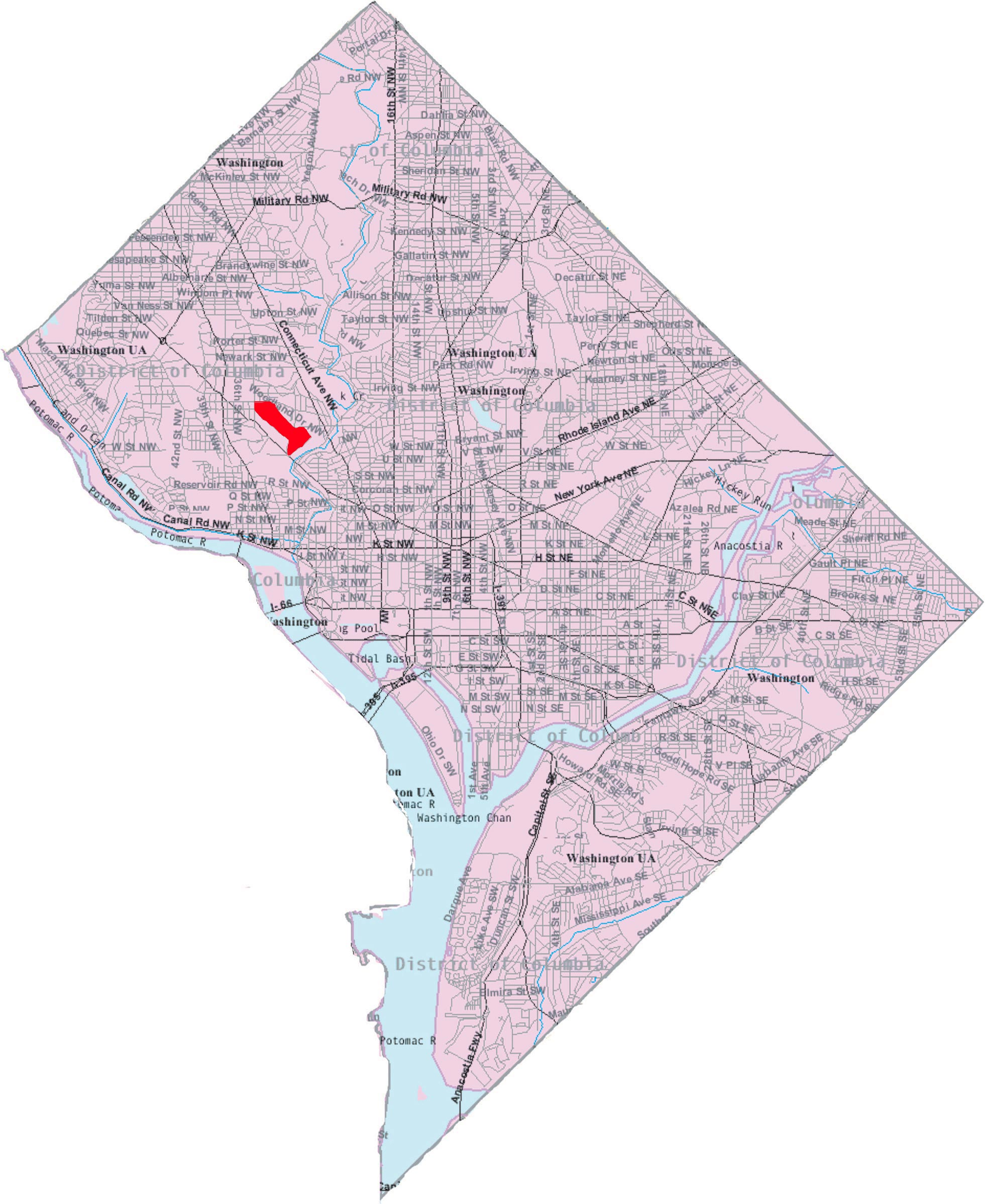 This image is a modified version of a self-generated reference map from the U.S. Census Bureau's American Factfinder at by Wikipedia user Msclguru.